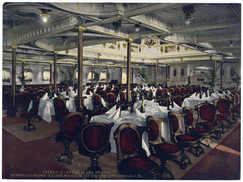 First Class Restaurant of the SS Kaiser Wilhelm der Grosse Caption bottom left: 16538 P.Z. - NORDD. LLOYD, BREMEN SCHNELLDAMPFER "KAISER WILHELM DER GROSSE". SPEISESAAL I. KL.